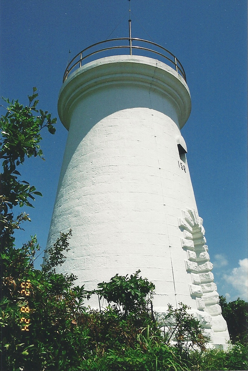 The close view of the Cape D'Aguilar Lighthouse located at the south side of Hong Kong near Tai Tam